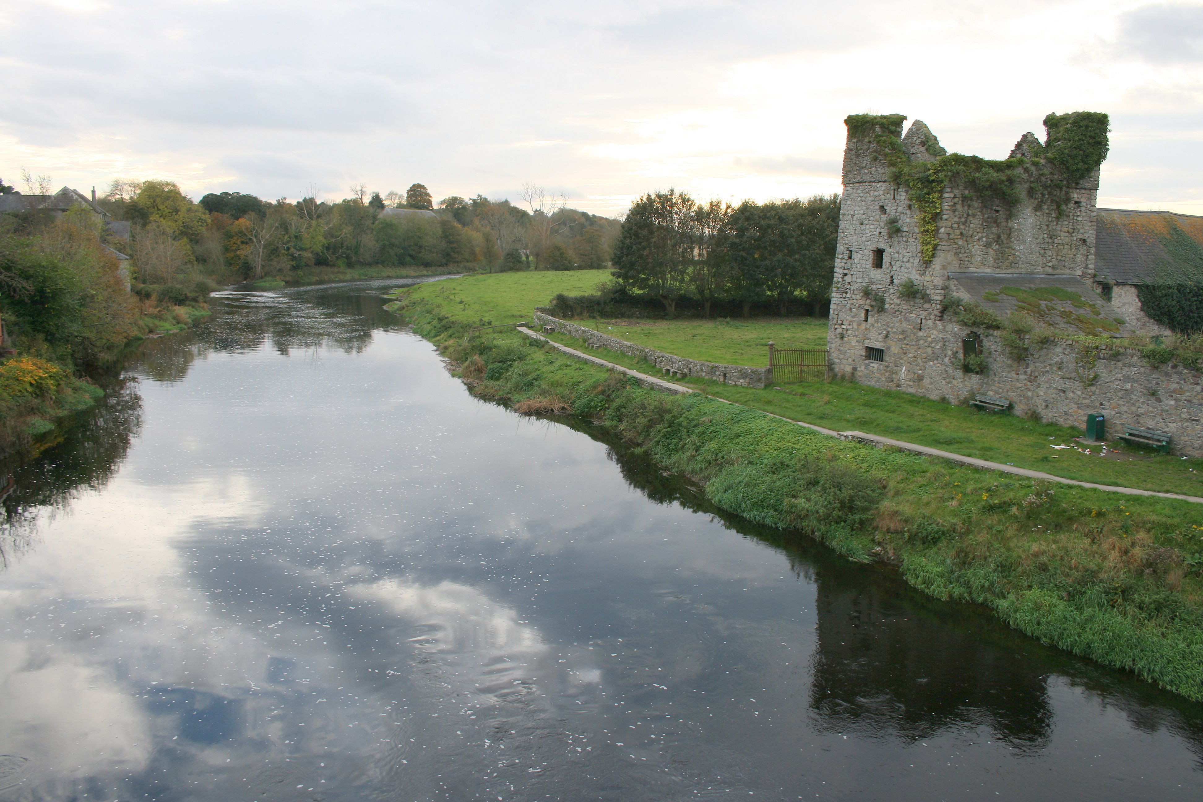 River Nore from the bridge in Thomastown, County Kilkenny, Ireland